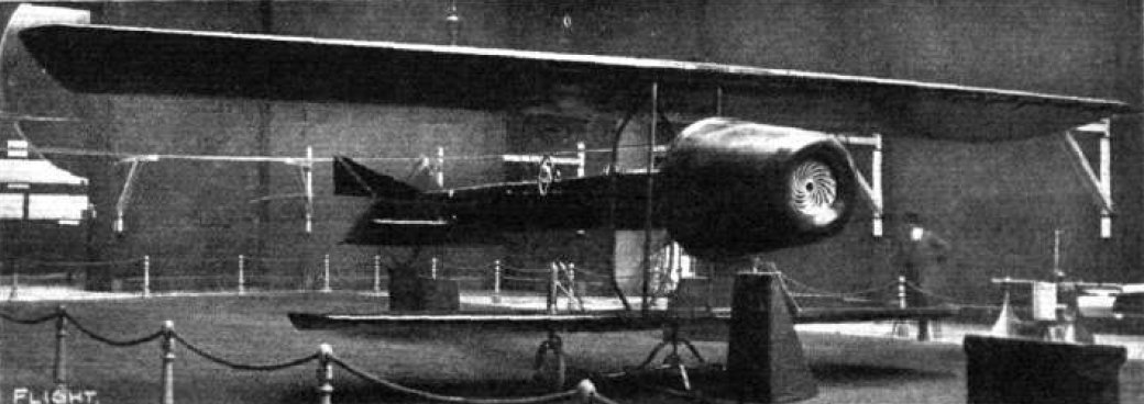 Monochrome photograph reproduced in the 29 October 1910 issue of Flight, an aviation magazine, showing the Coanda-1910 aircraft at the 2nd Paris Flight Salon.